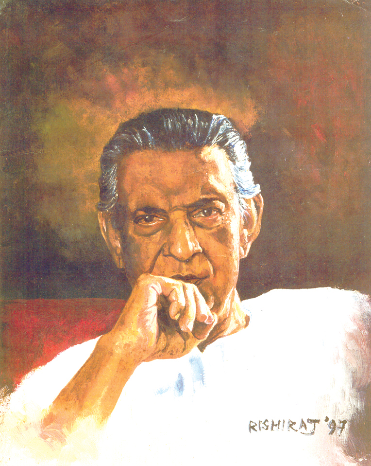 Portrait of Satyajit Ray created by me in 1997 and edited in 2009